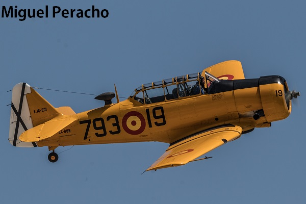 Preserved by the FIO at LECU